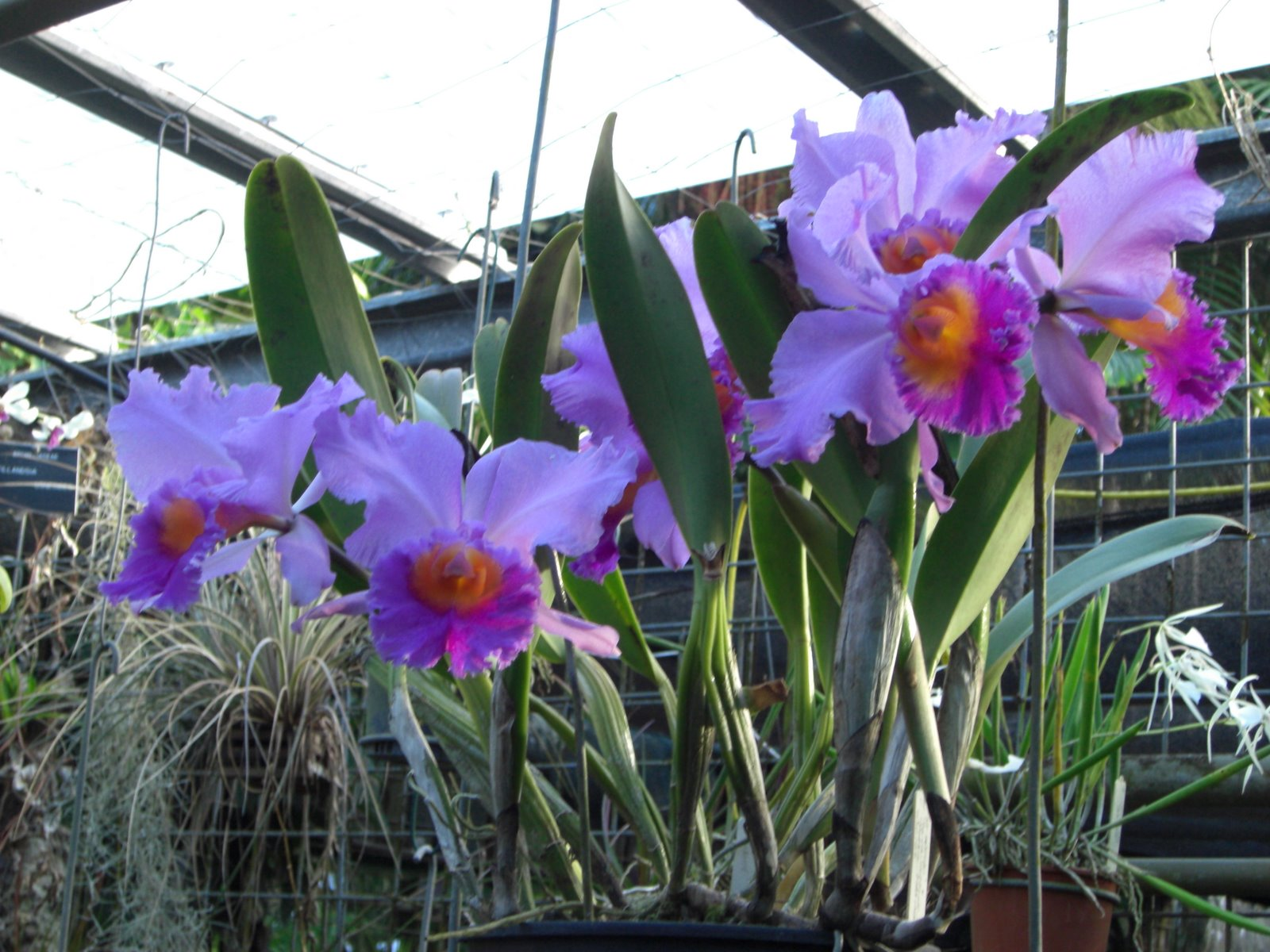 Cattleya in Flecker Botanic Gardens, Queensland, Australia.